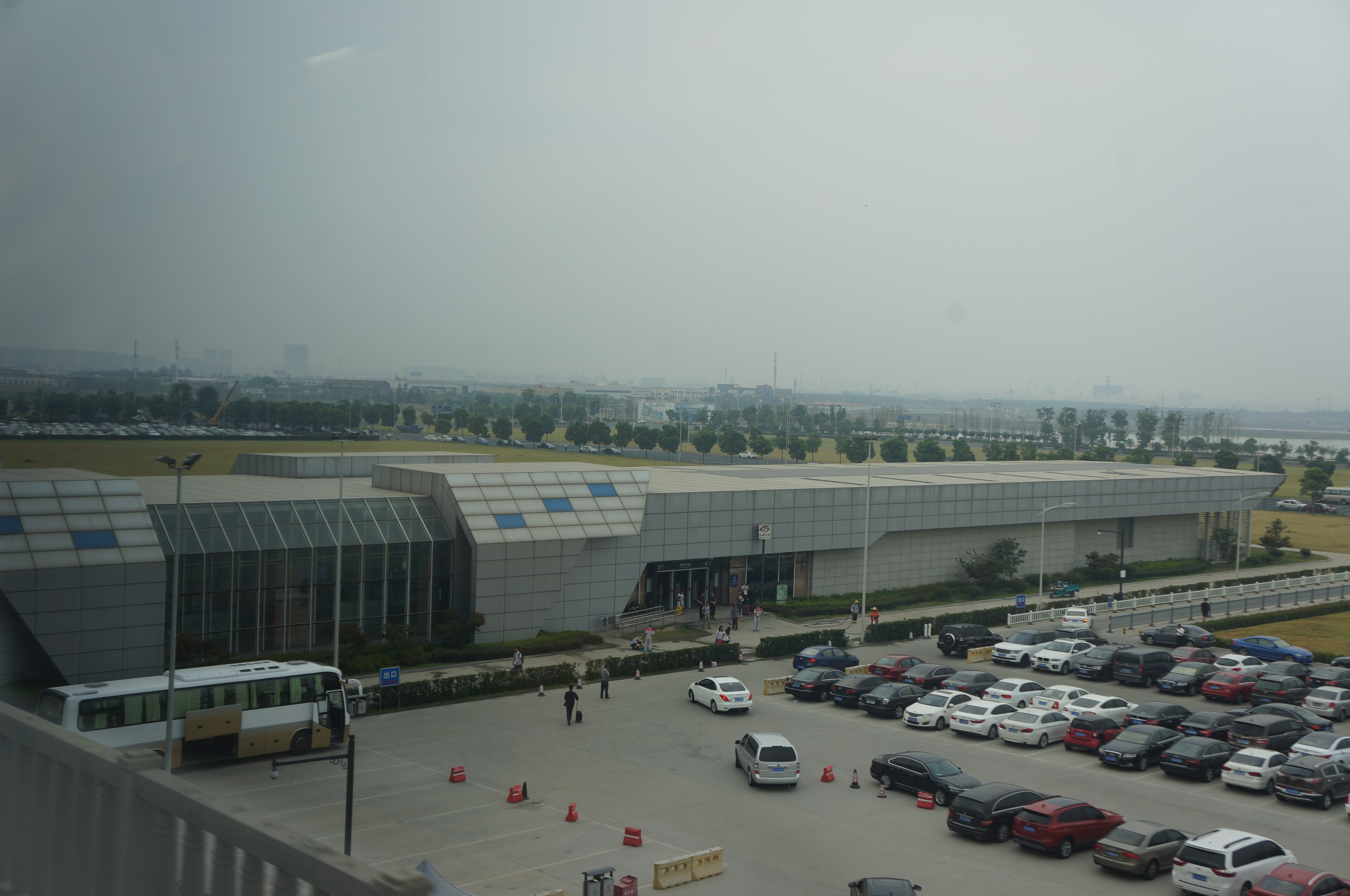 201609 SZRT Suzhou Nort Railway Station